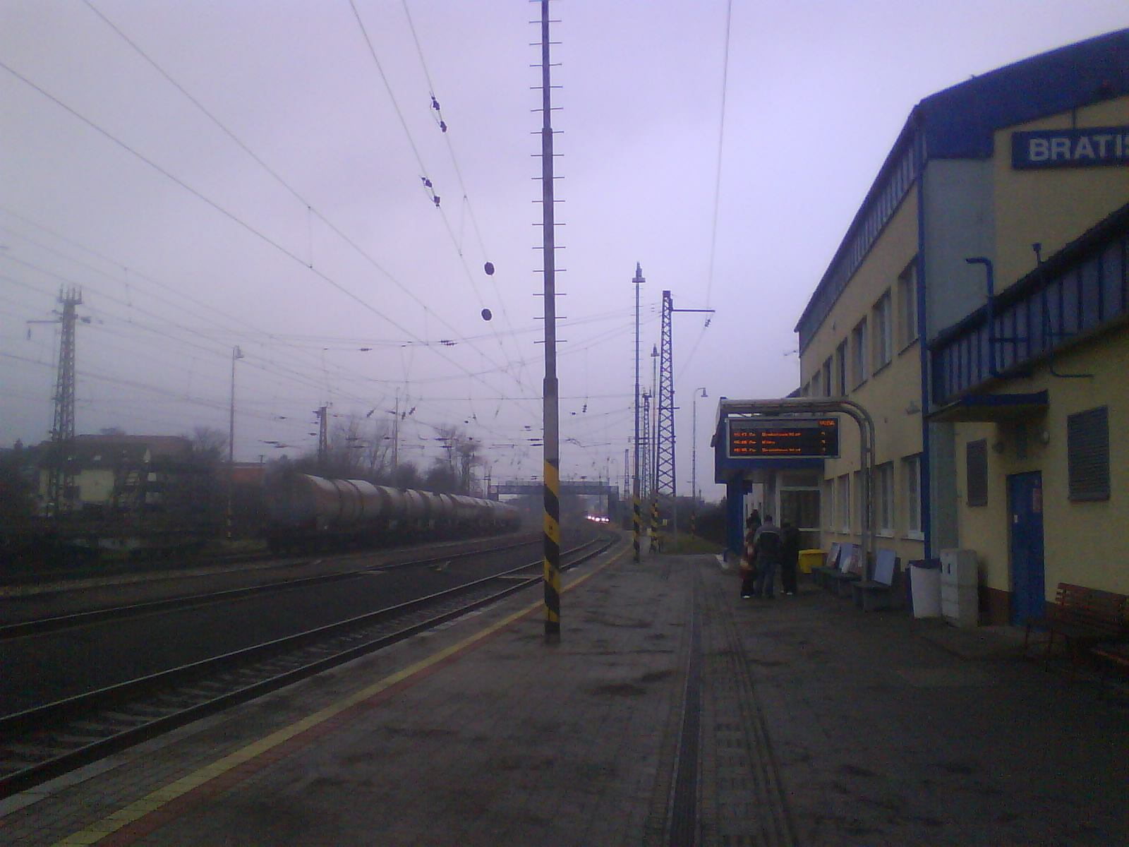 Bratislava Lamač railway station in Bratislava, Slovakia, main platform.